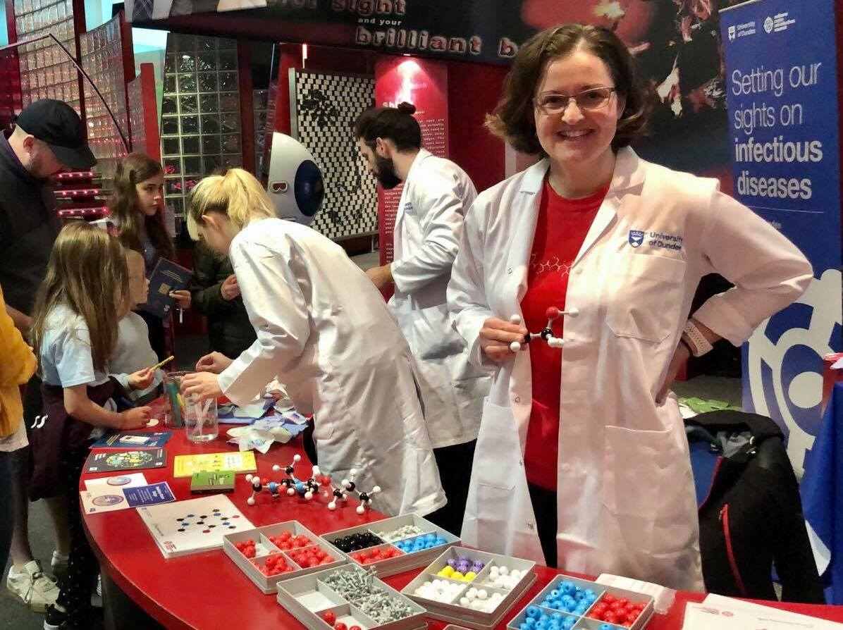 This picture shows the scientific work of a scientist in a science museum, demonstrating scientific knowledge.